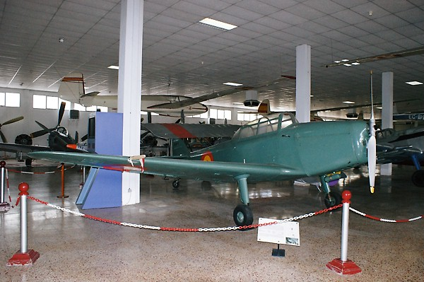 Huarte-Mendicoa HM-1B of EdA. 4/10.